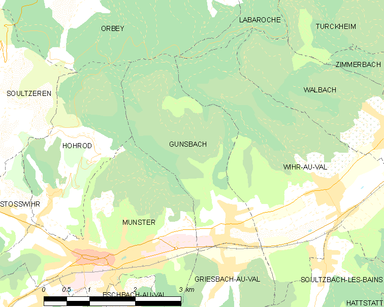 Map of French municipality